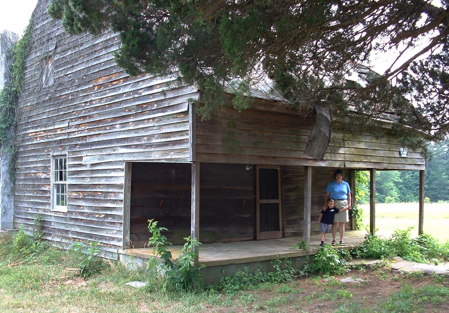 "DeJarnette's Tavern", a nationally registered historical place near Nathalie, Halifax County, Virginia.